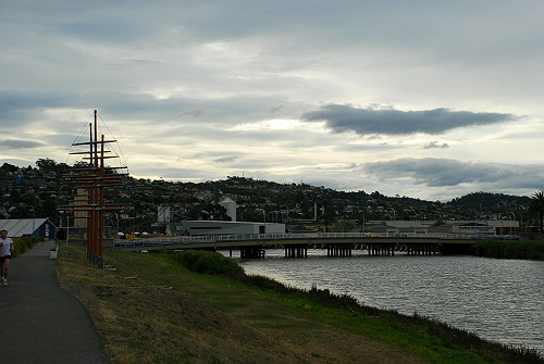 North Esk River bank in Launceston